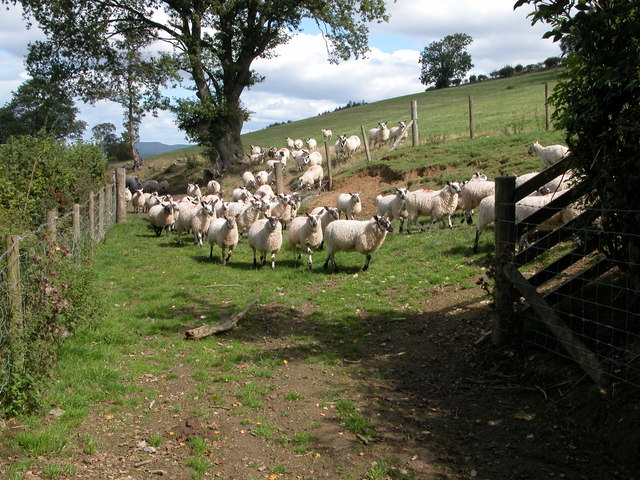 Beulah sheep near Cwmrhybin. The Beulah is a speckled faced breed of sheep local to this area of Wales